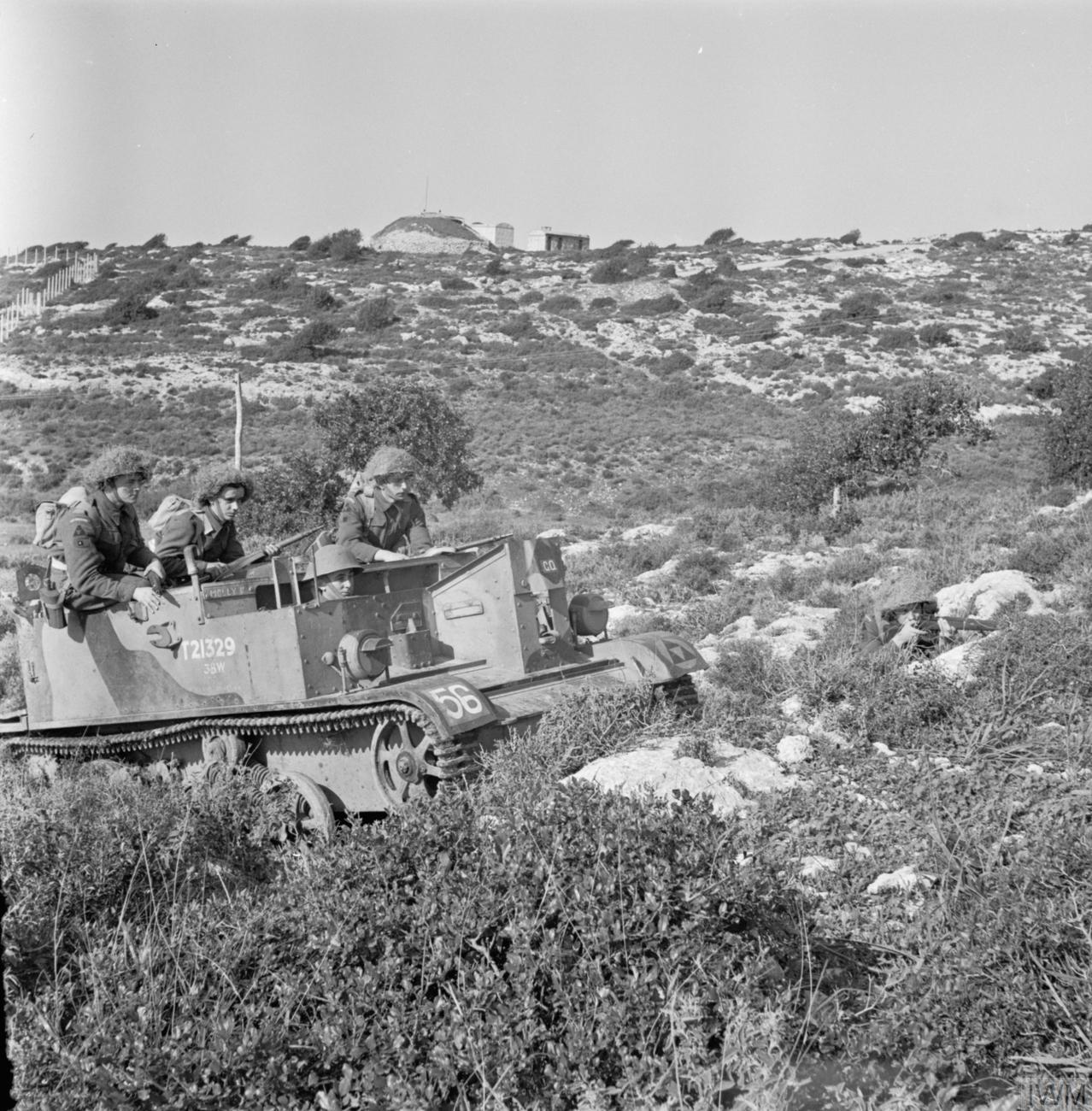 British Forces in the Middle East, 1945-1947 Men of the 2nd Battalion, The East Yorkshire Regiment with a Universal Carrier on field exercise in Palestine.